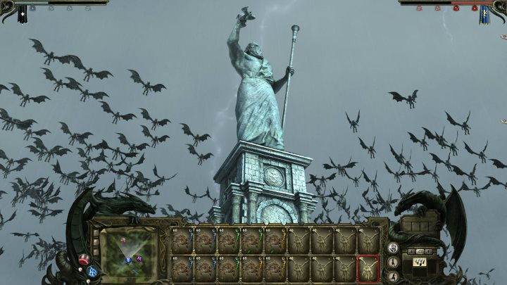 Image is of a screenshot from King Arthur II, a NeocoreGames video game.